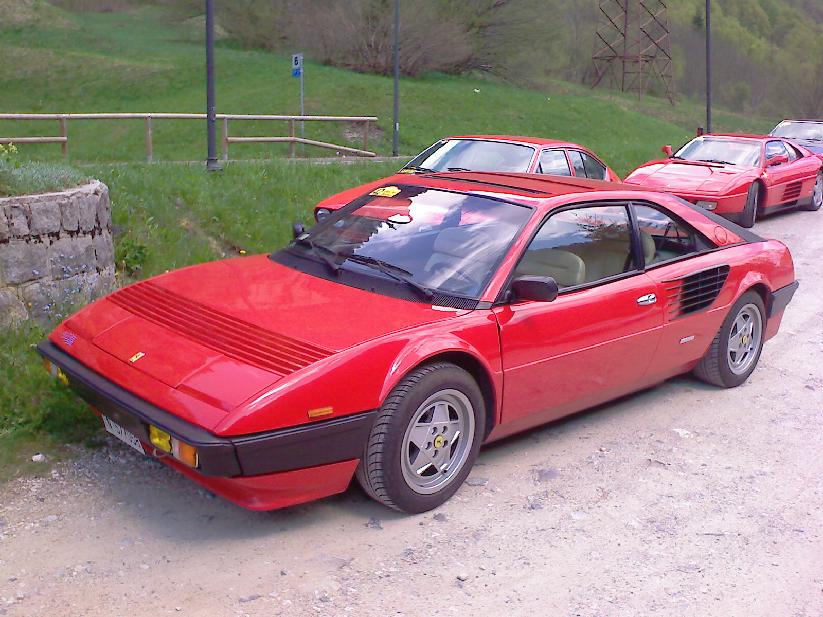 Early Ferrari Mondial 8. Picture taken at Daone (Trento, Italy).